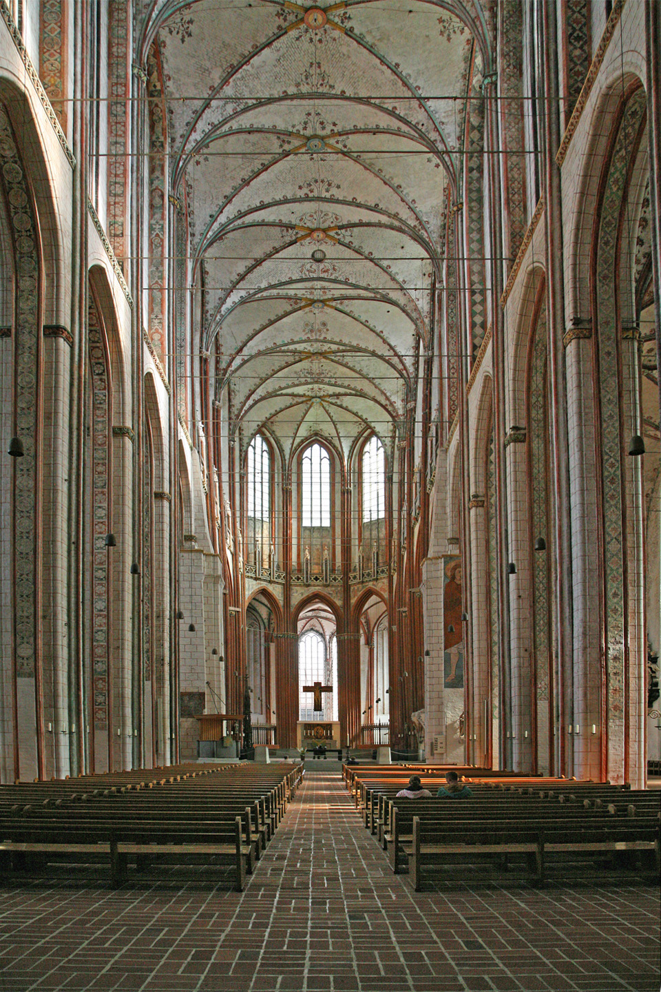 The Lübecker Marienkirche (built between 1277 and 1351) is located on the Old Town of Lübeck. The three-aisled basilica, built in baking stone, has the highest baking stone arch in the world, 38.5 meters).